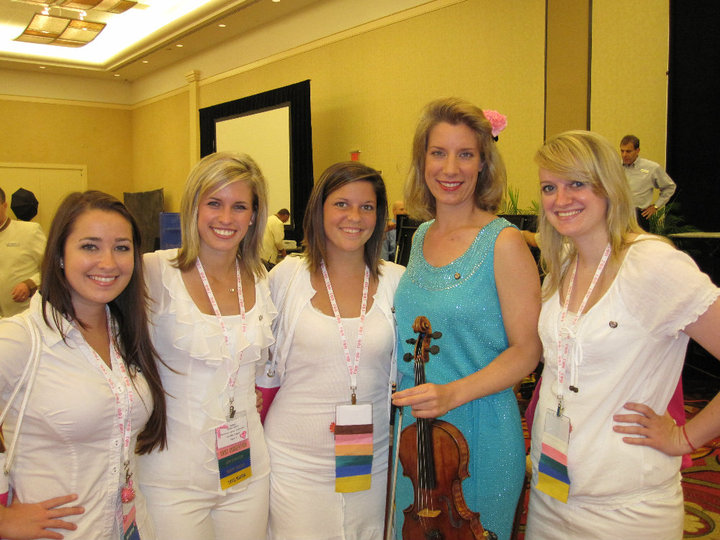 Gamma Phi Beta - Beta Rho women with violinist Elizabeth Pitcairn